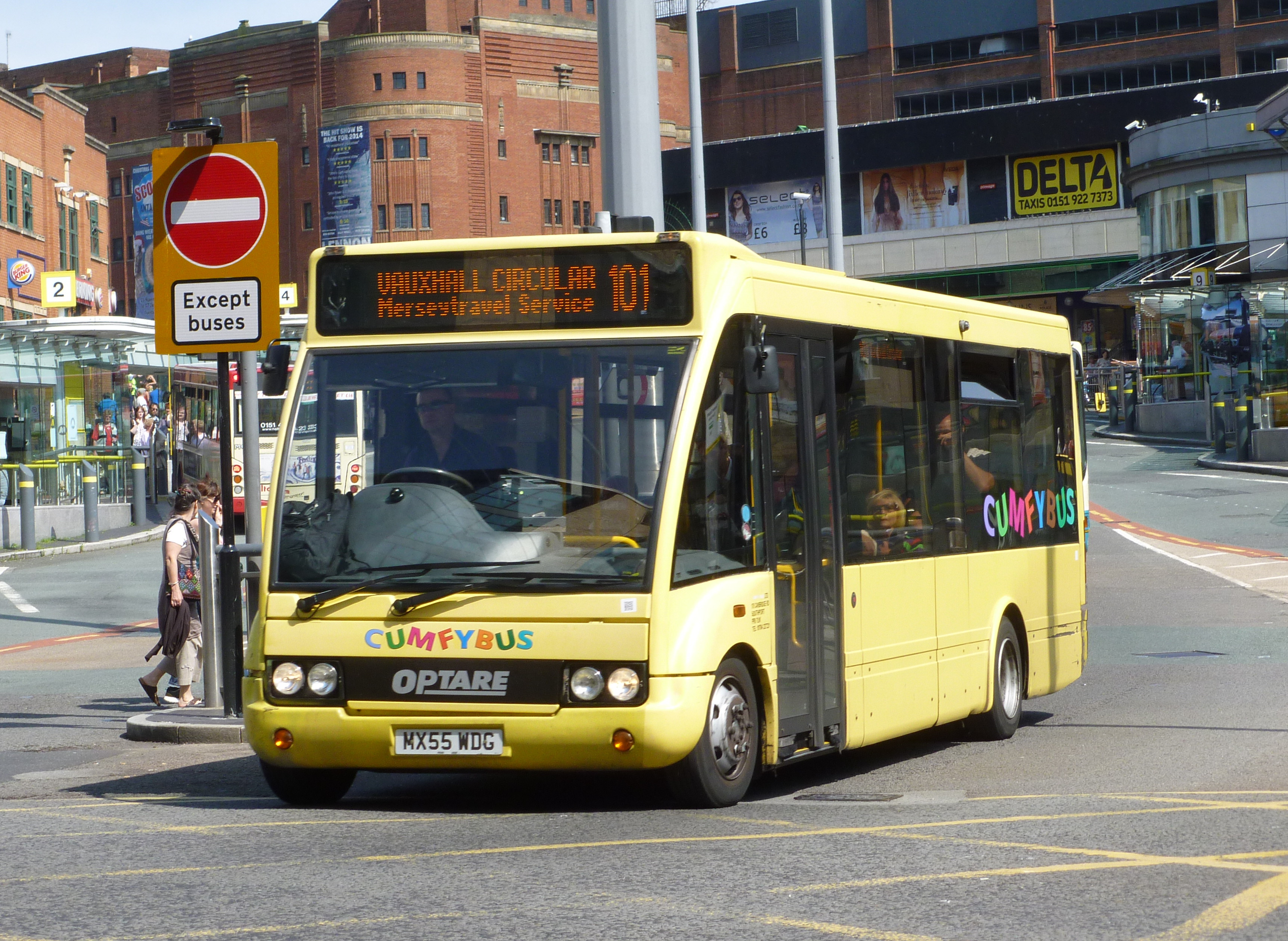 Cumfybus MX55 WDG, an Optare Solo, exiting Queen Square Bus Station, Liverpool on route 101